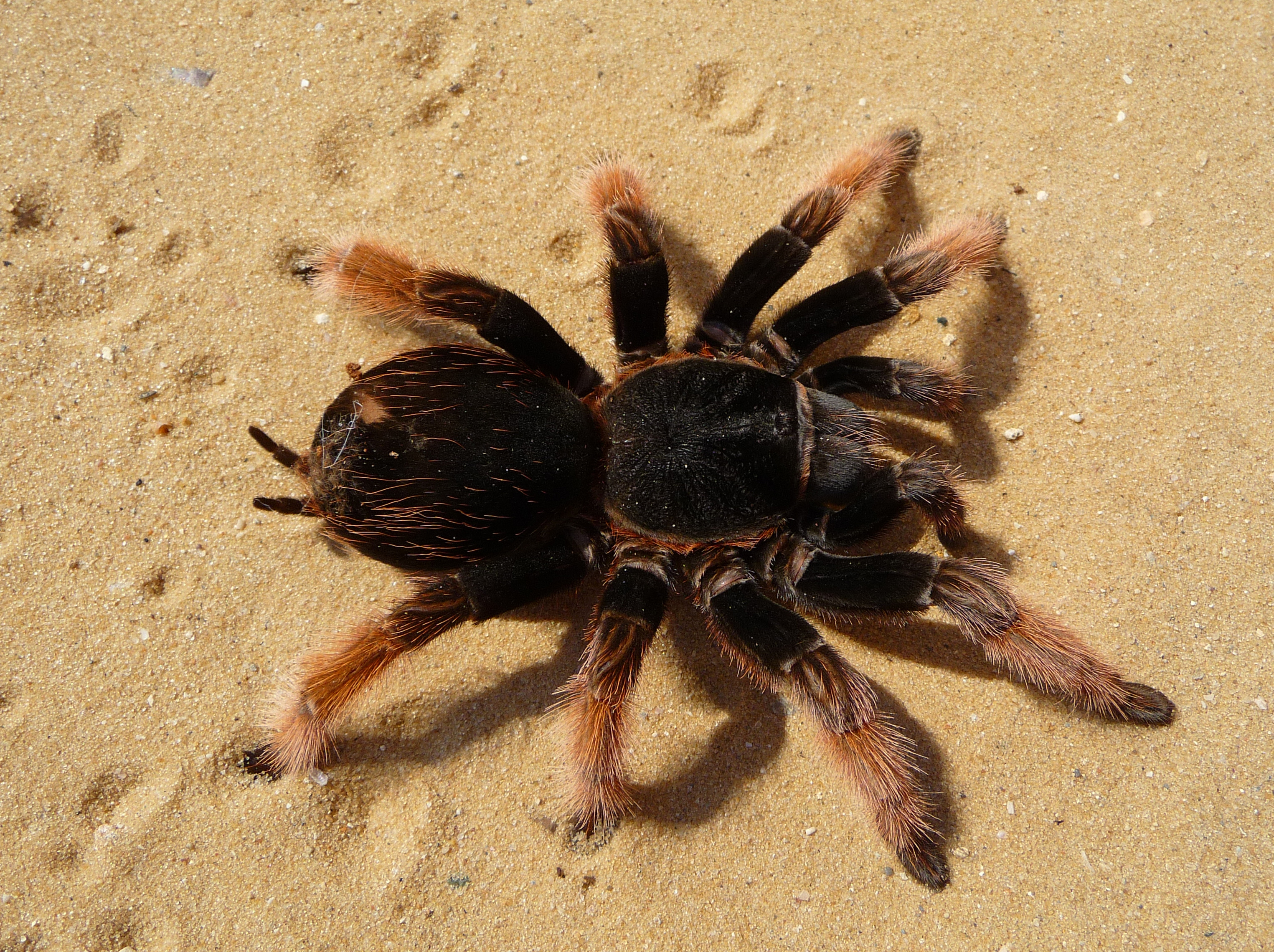 Mexican Pink tarantula Brachypelma klaasi. Adult female